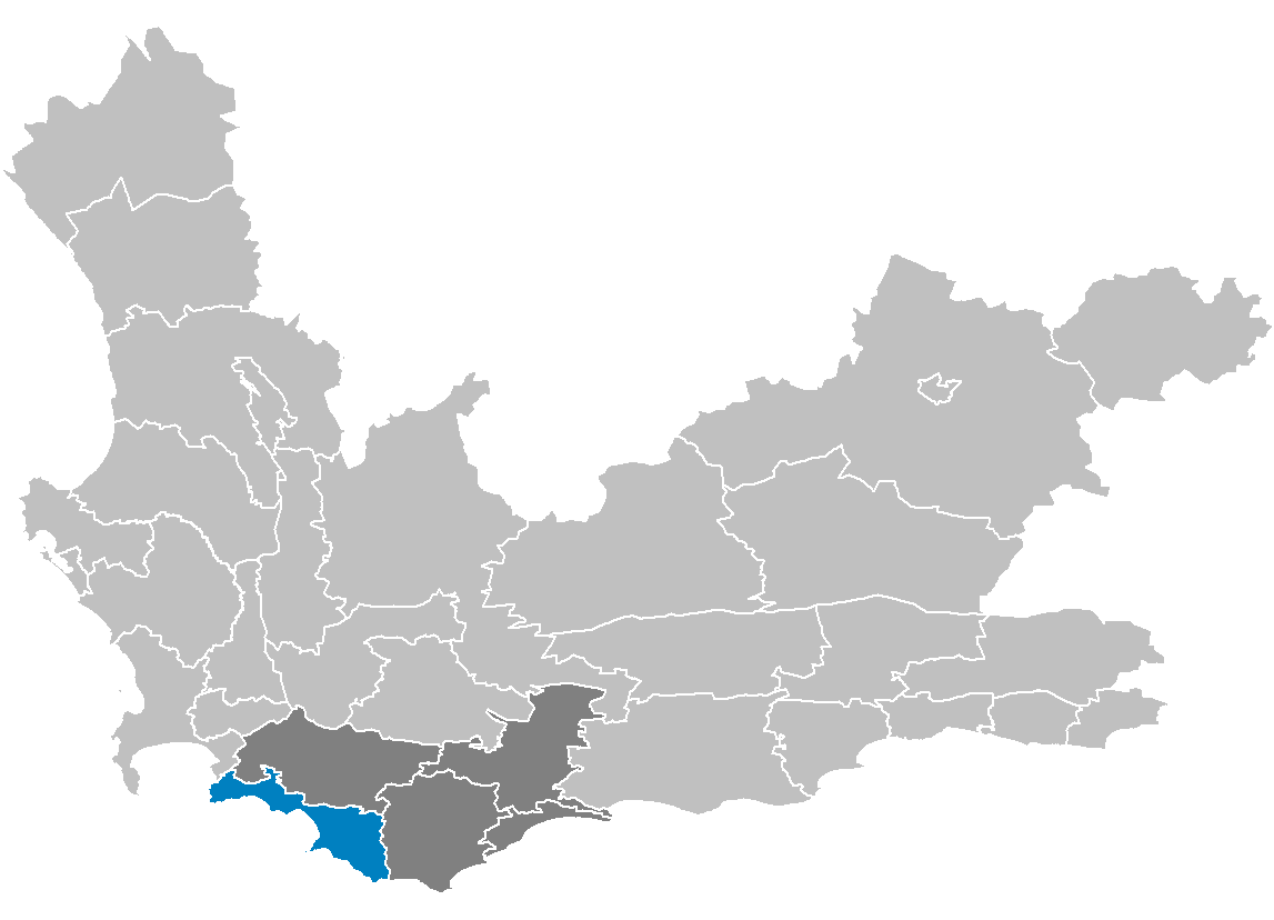 Map showing the Overstrand Local Municipality, within the Overberg District Municipality, within the Western Cape.